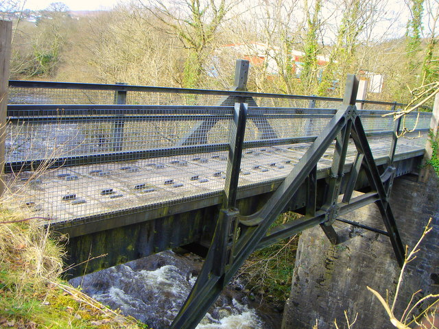 Pont y Cafnau iron rail bridge and aqueduct (1793)